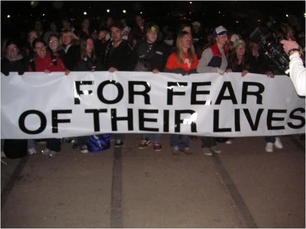 Global Night Commute in Boston,MA,USA from 4/29/06